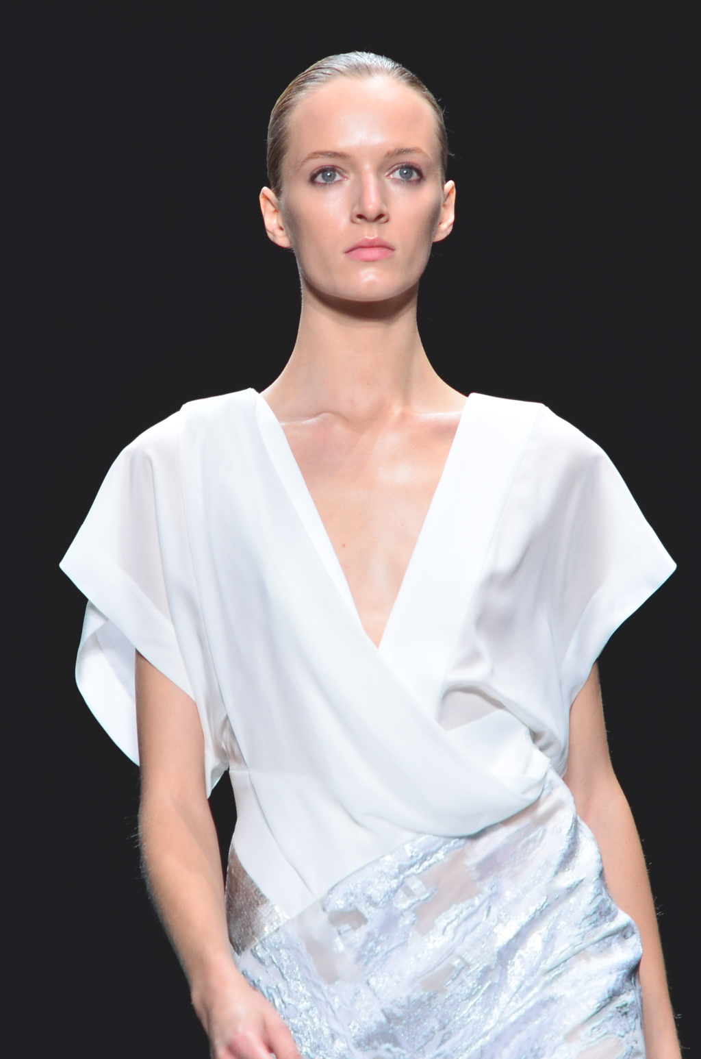 Russian model Daria Strorous walks at the J. Mendel Spring Summer 2015 show on New York Fashion Week